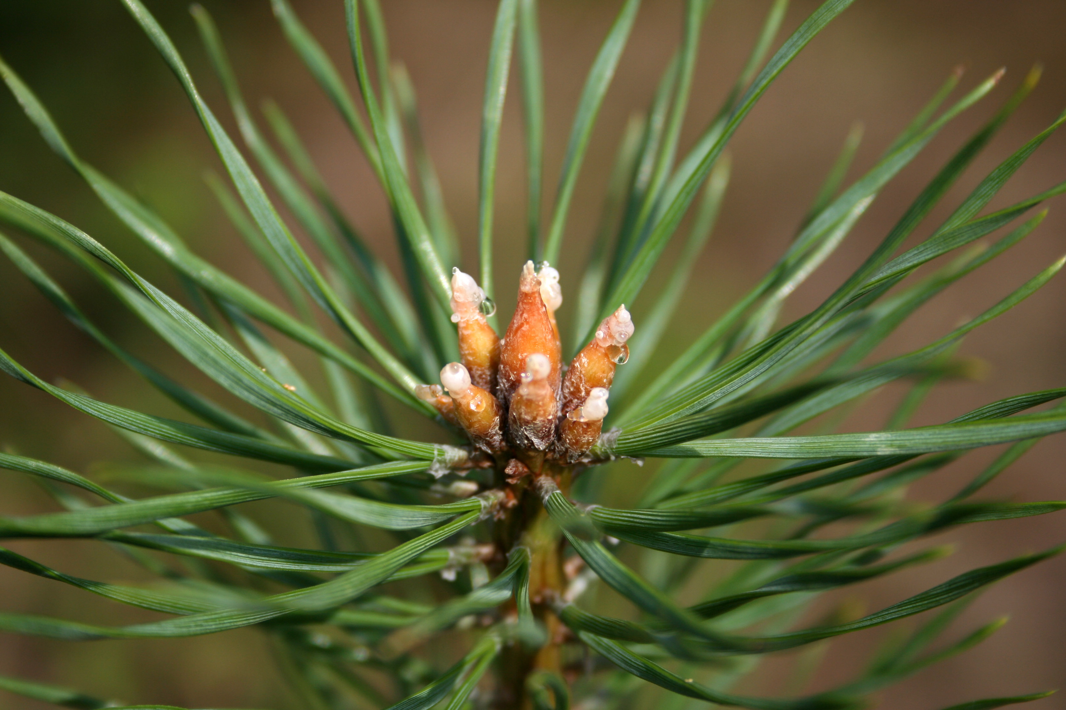 Scots Pine